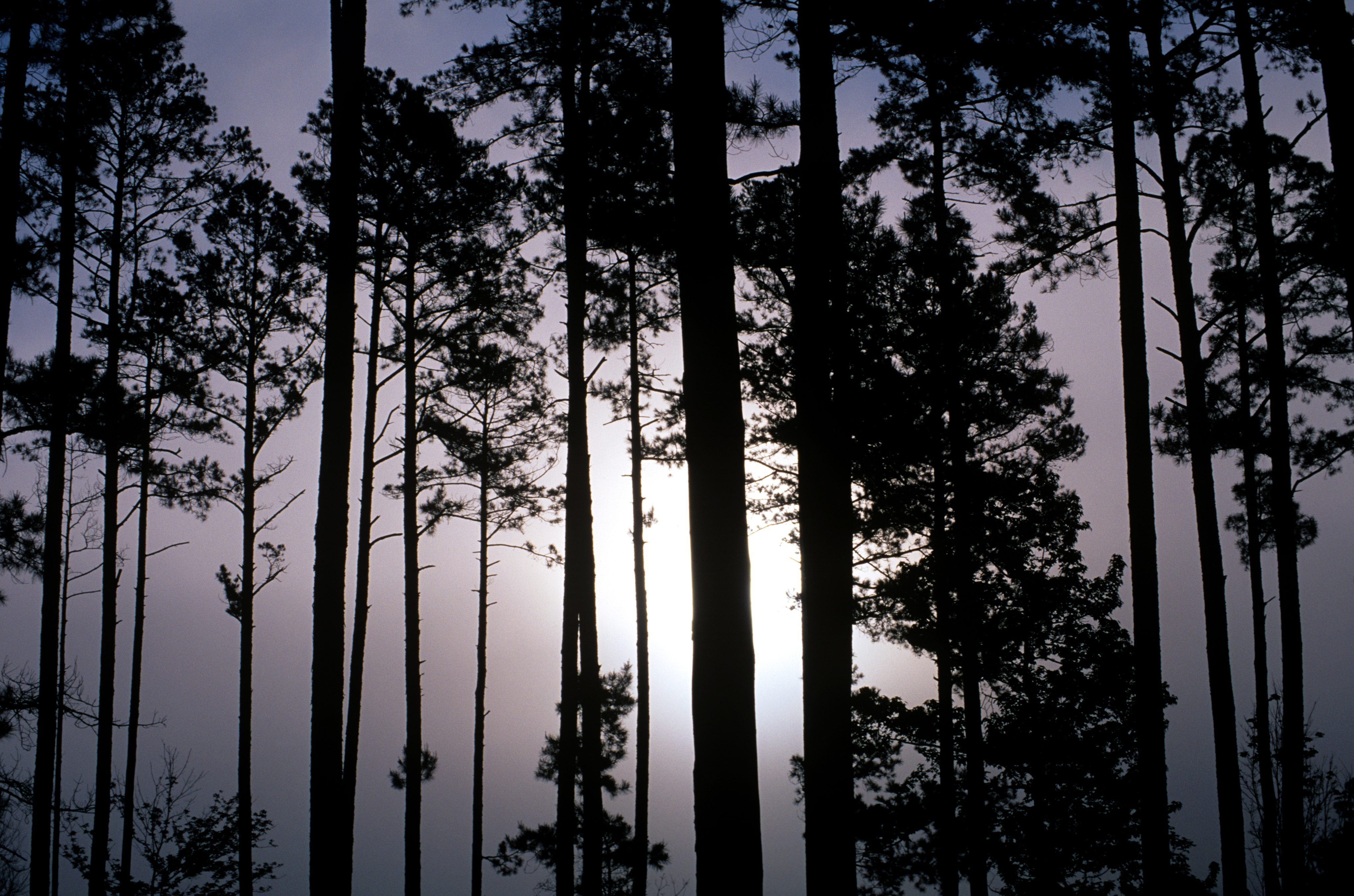 Pinus taeda, Ouachita National Forest - US Forest Service photo [1]